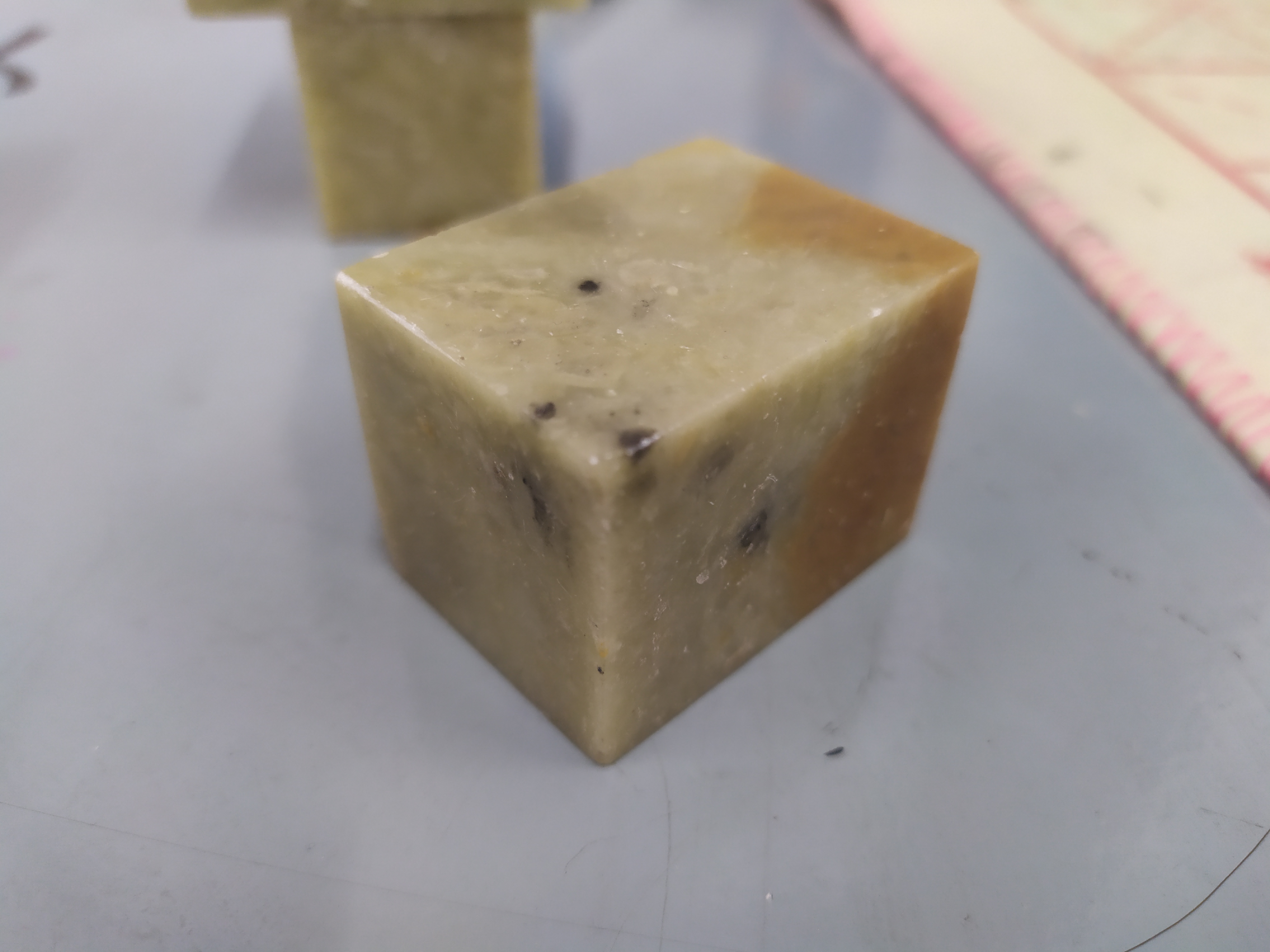 Qingtian stone